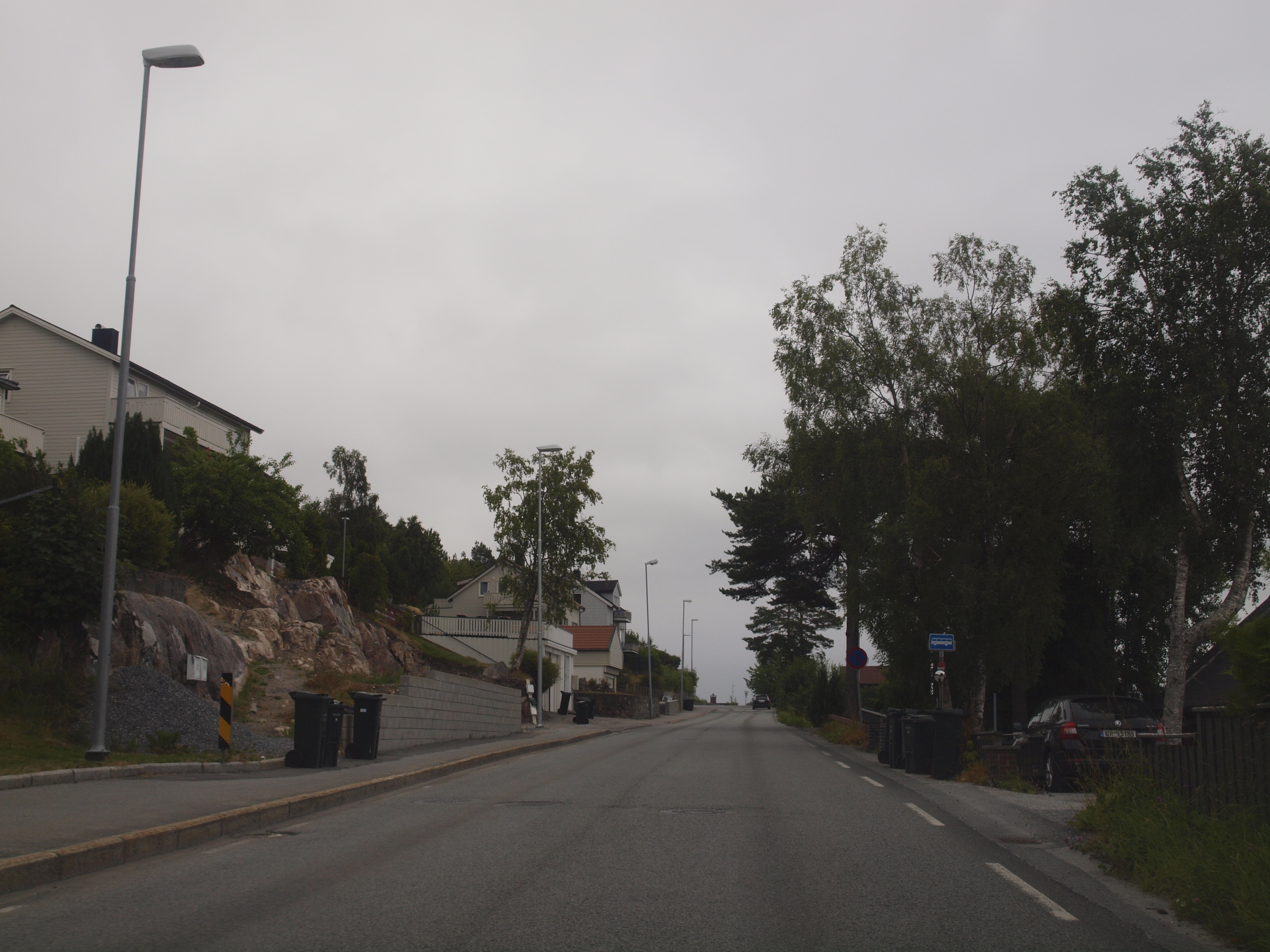 Road in Molde, Norway